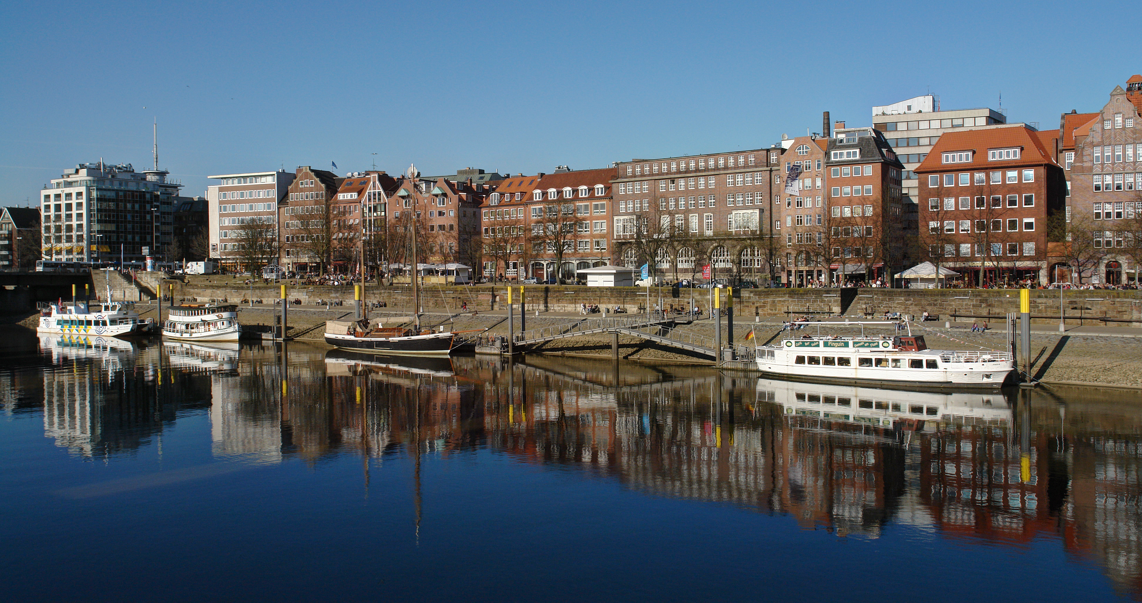 Schlachte in Bremen between Bürgermeister-Smidt-Brücke and Teerhofbrücke